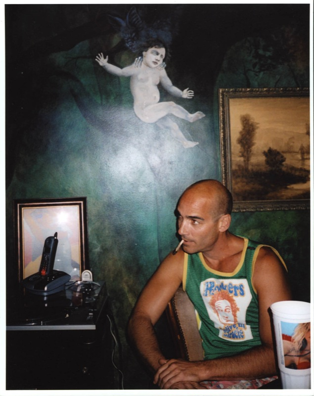 French actor Jean-Marc Barr